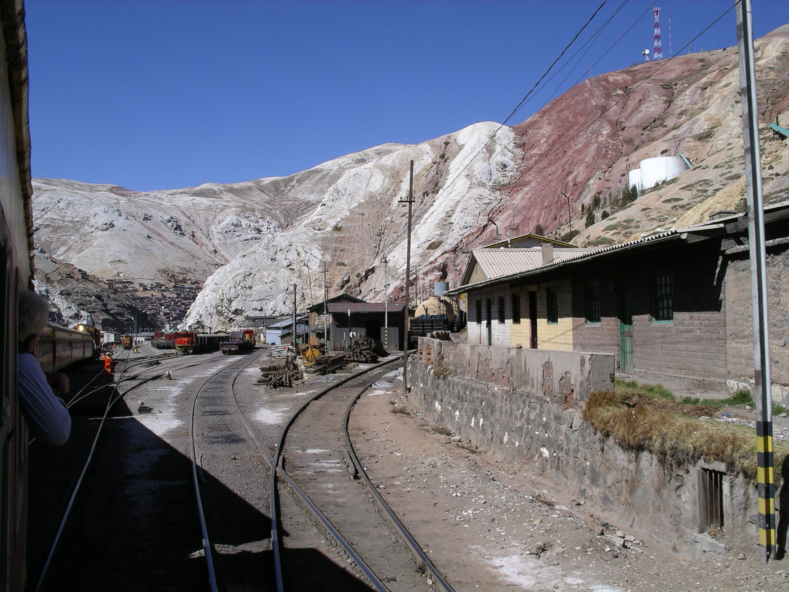 Railway Station of the mining city of La Oroya, Peru. The railway track connects Lima to Huancayo and passes on its way the highest by any railway of the Americas reached point at Abra Anticona (Ticlio) at over 4781m.